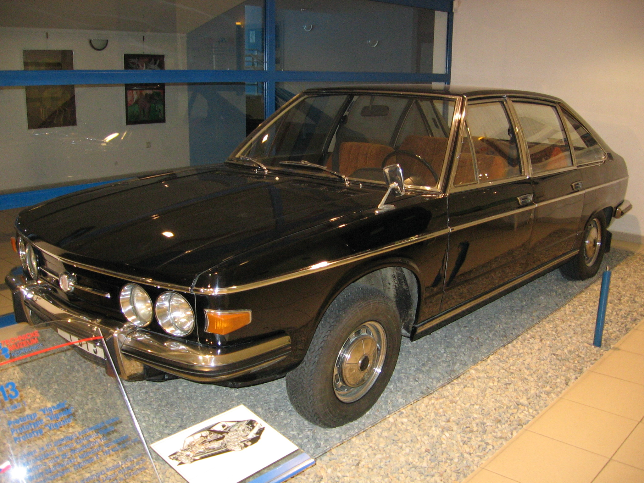 Tatra 613 prototype fy Vignale